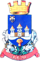 Middle Coat of Arms of the city and municipality of Šabac in Serbia